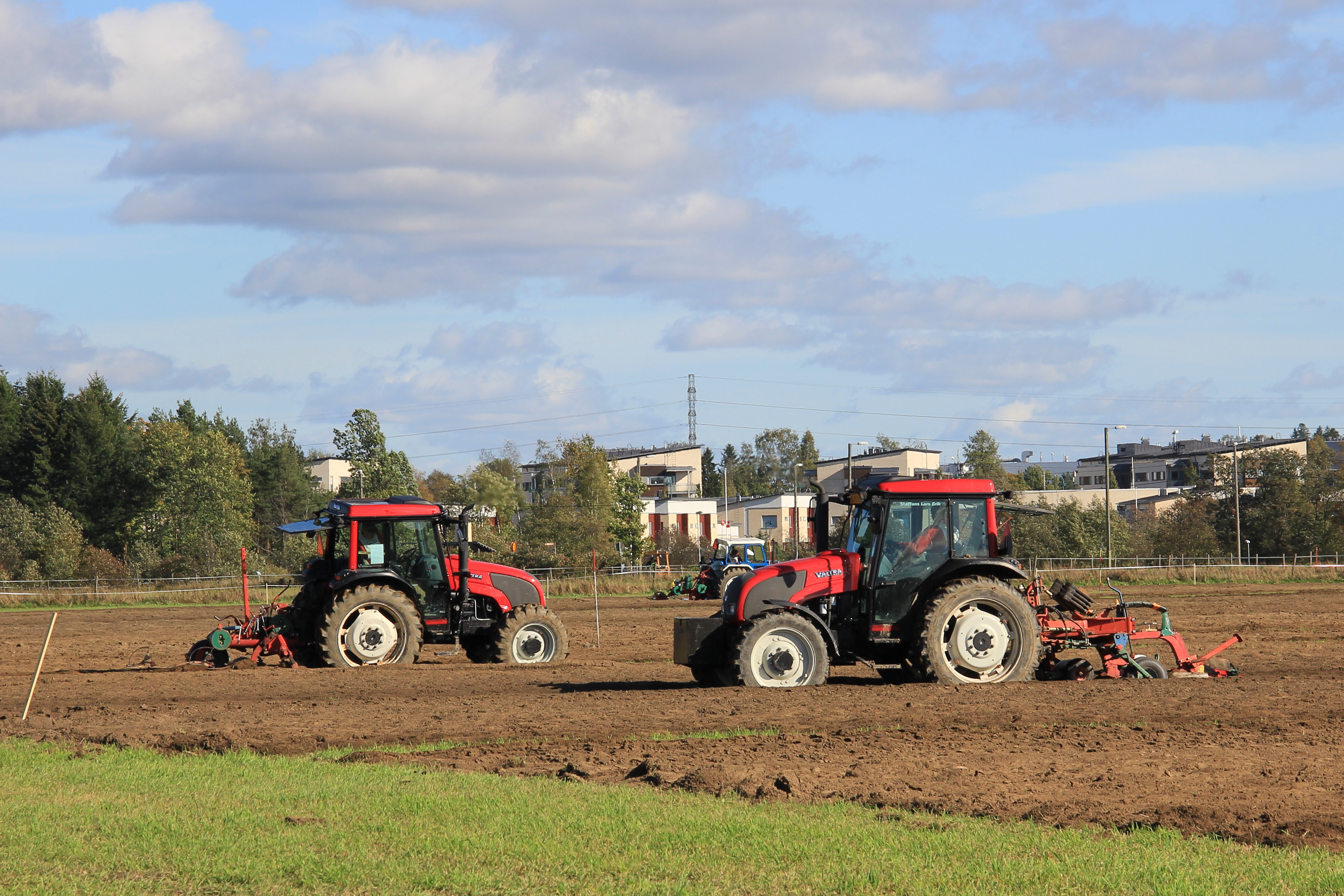 Tractor ploughing contest. National championships 2014 in Finland, Haltiala, Helsinki, Finland. Day two, conventional grassland ploughing. - General view.